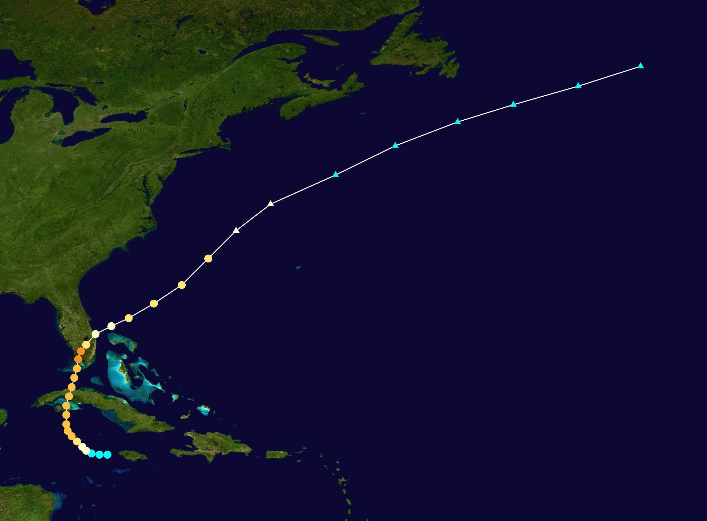 1948 Atlantic hurricane 7 track. Uses the color scheme from the Saffir-Simpson Hurricane Scale.